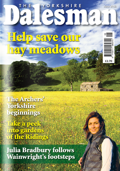 A cover from Dalesman, a UK monthly magazine serving the English county of Yorkshire